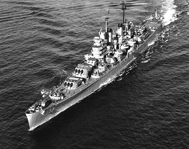 The U.S. Navy heavy cruiser USS Toledo (CA-133) underway off the east coast of Korea while operating with Task Force 77, 6 September 1951.